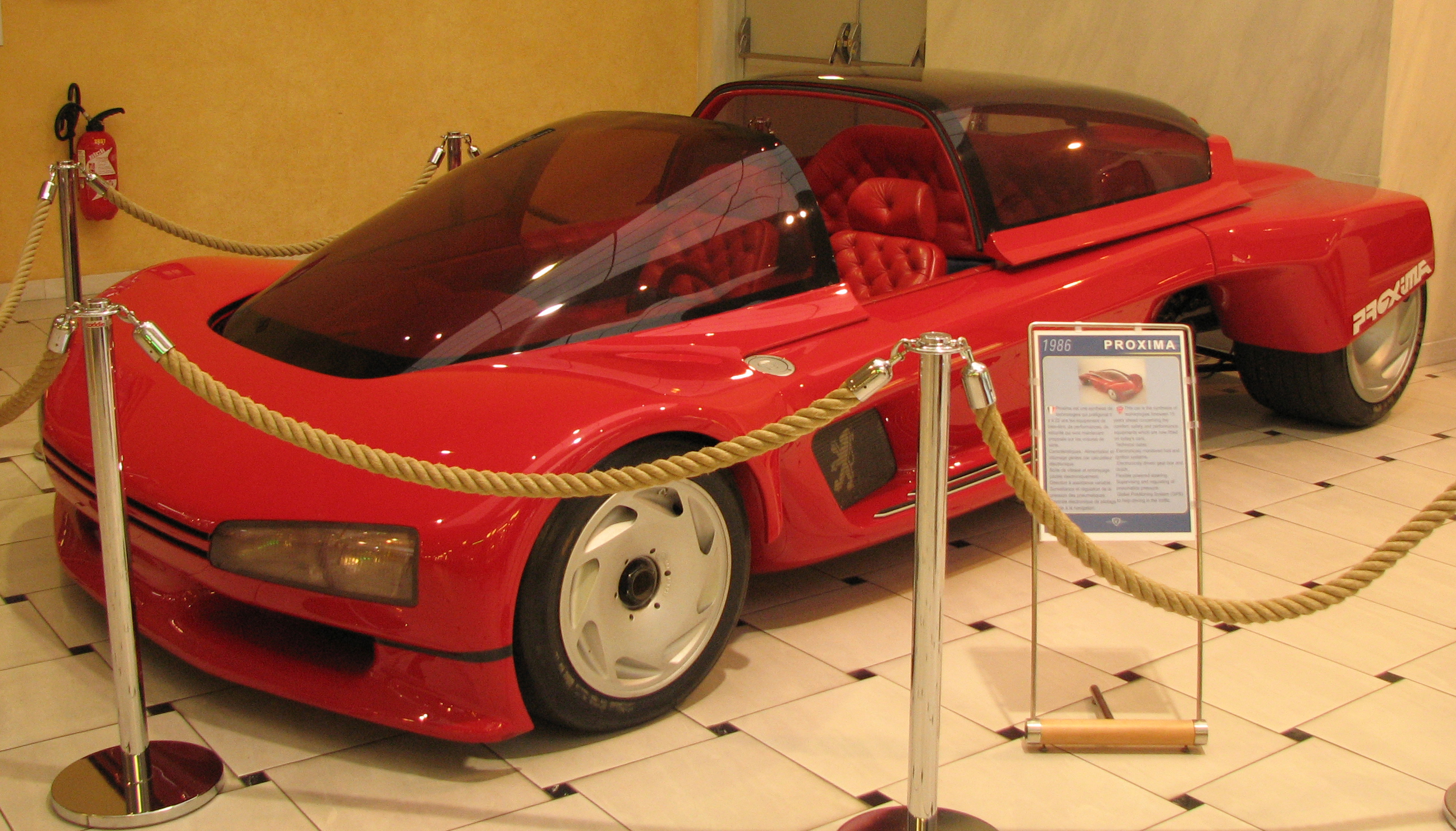 A Peugeot Proxima concept-car, musée Peugeot, Sochaux.